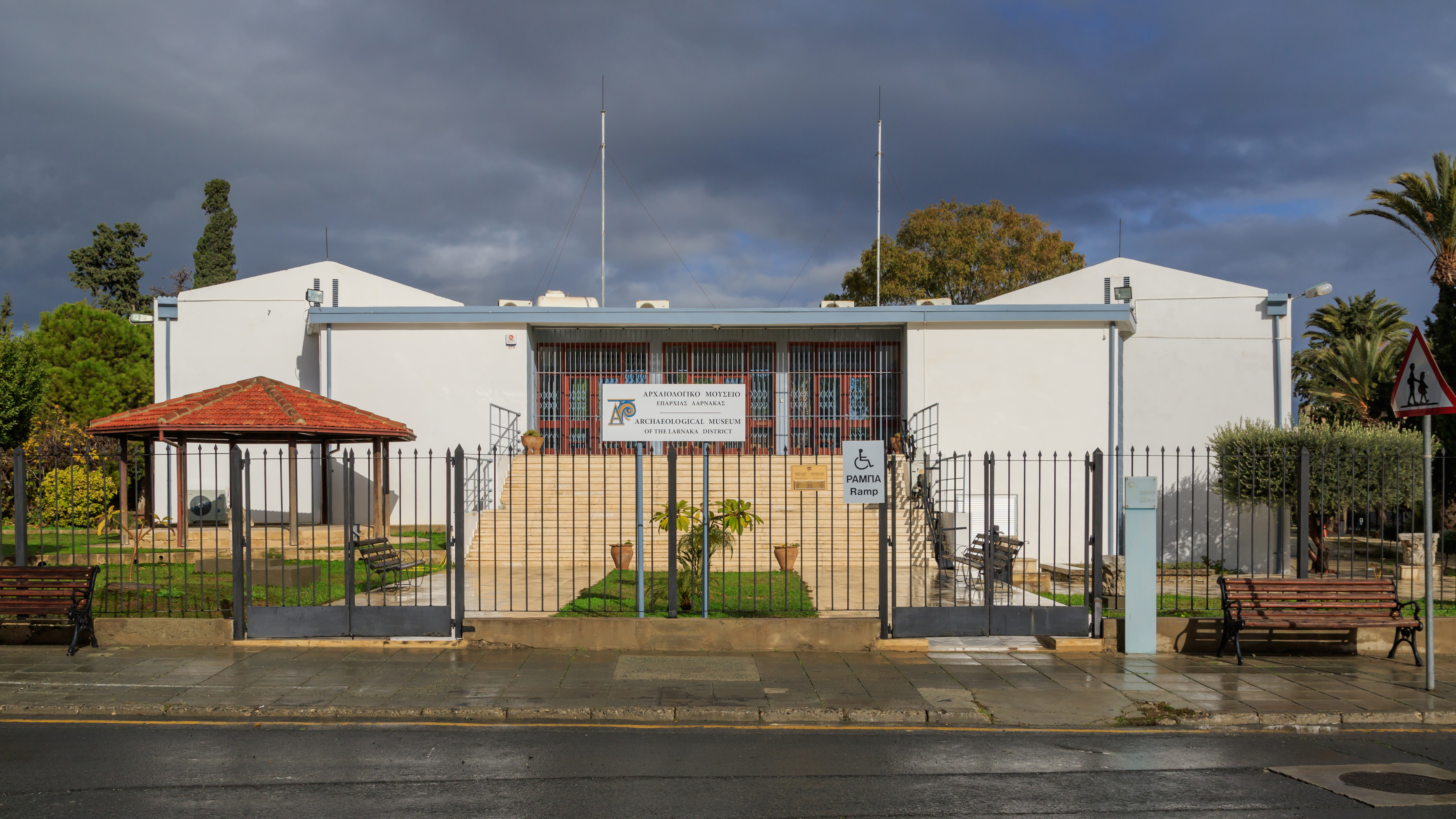 Building of Archaeological Museum in Larnaca, Cyprus